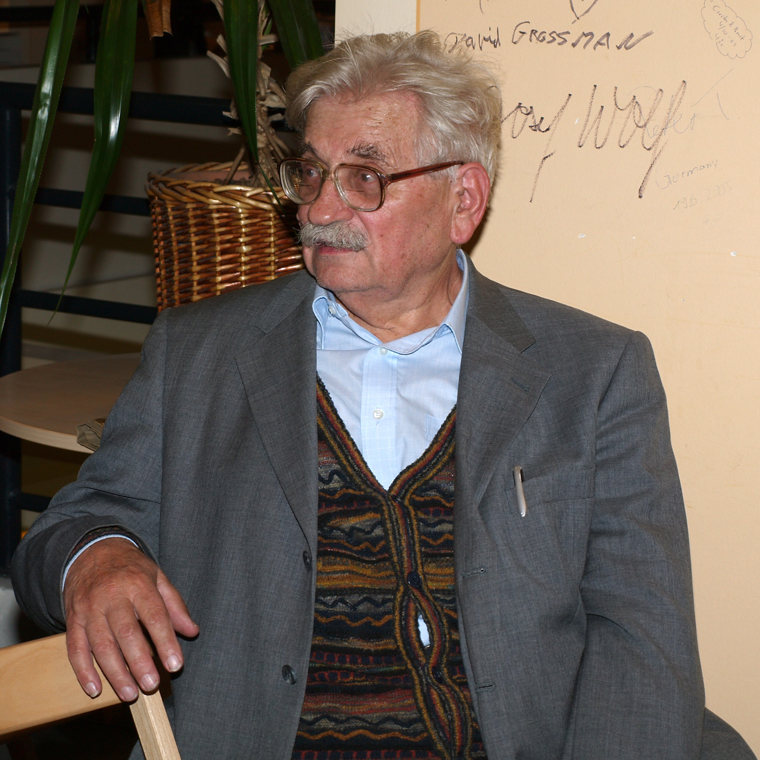 Czech writer Ludvík Vaculík